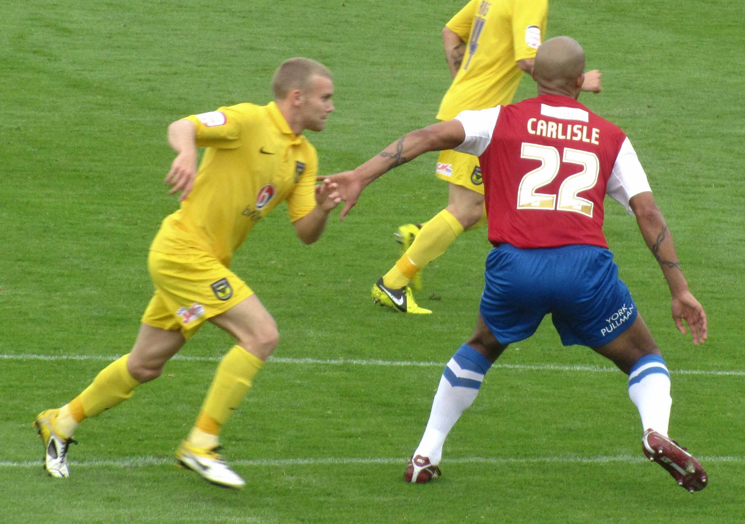 Alfie Potter and Clarke Carlisle. Image cropped from original at flickr.